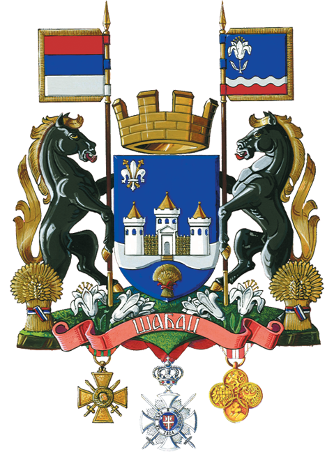 Big Coat of Arms of the city and municipality of Šabac in Serbia